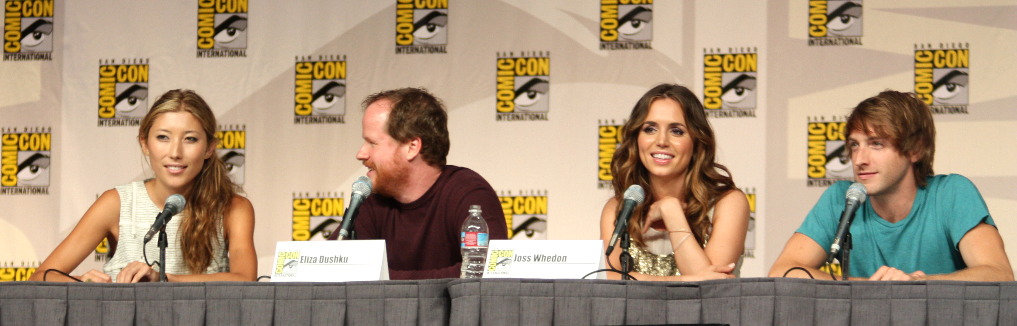 The Dollhouse panel, Dichen Lachman, Joss Whedon, Eliza Dushku and Fran Kranz, at the 2009 Comic Con in San Diego.